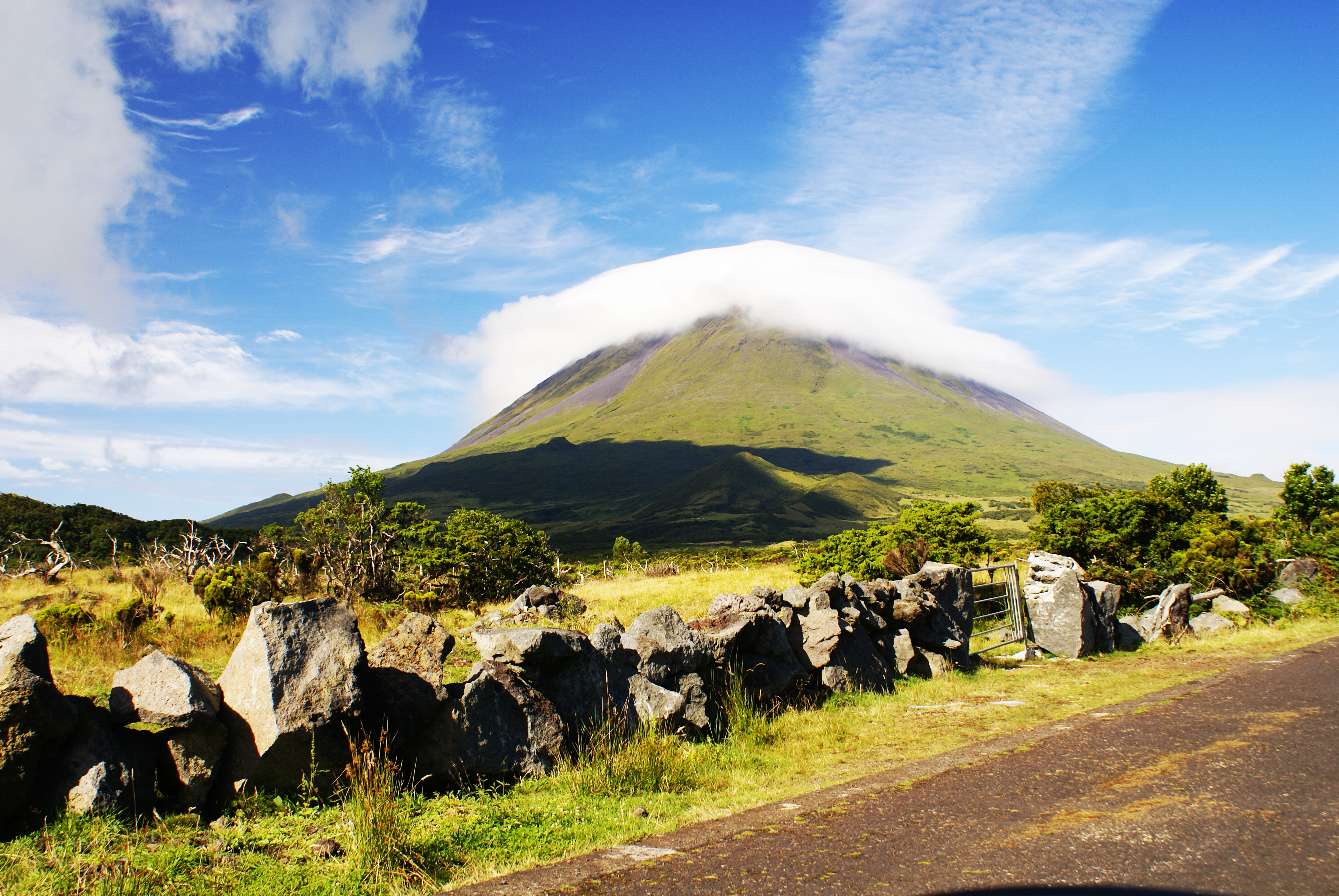 Montanha do Pico, aspectos 6 ilha do Pico, Açores, Portugal